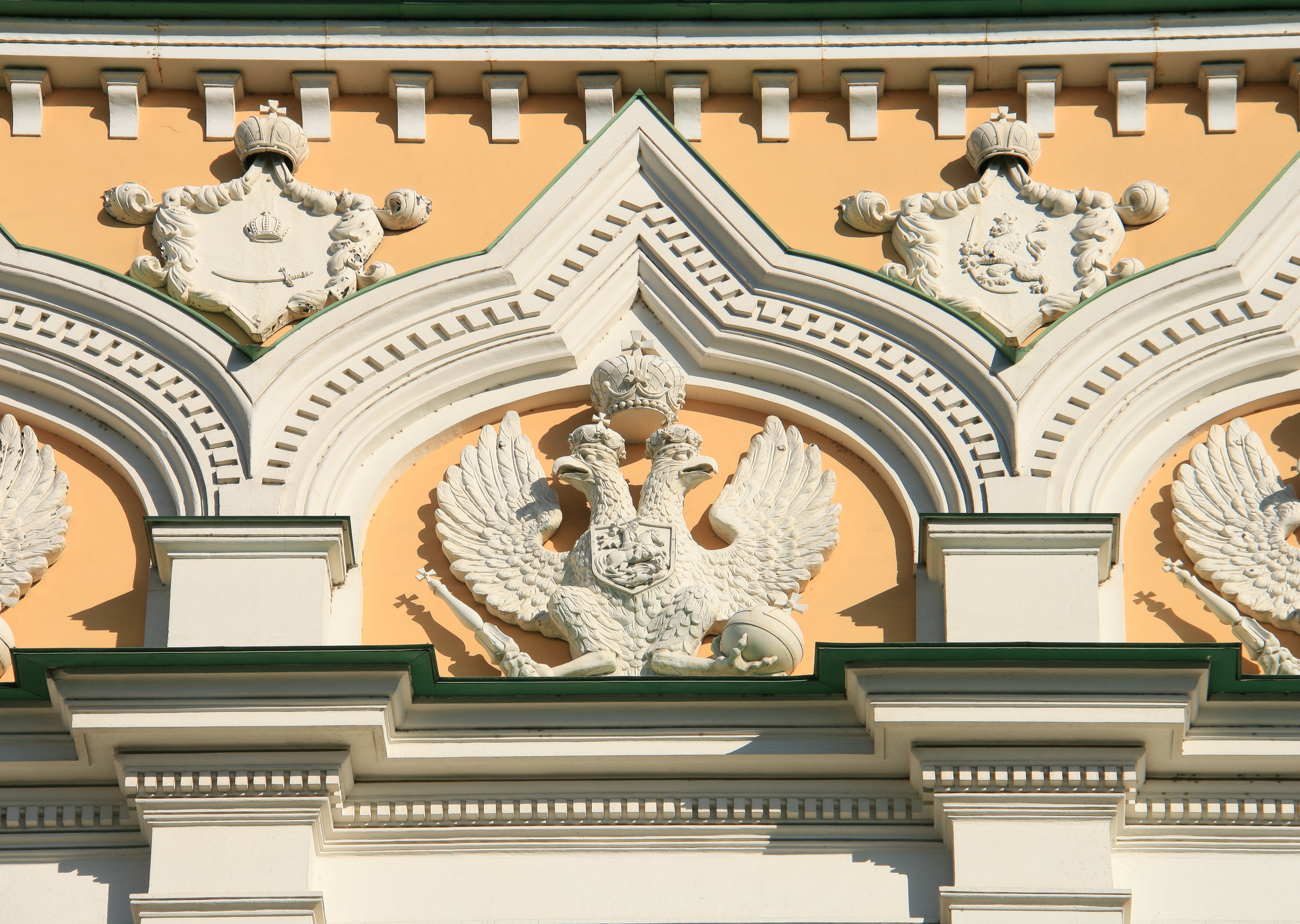 Facade fragment of Grand Kremlin Palace, Moscow